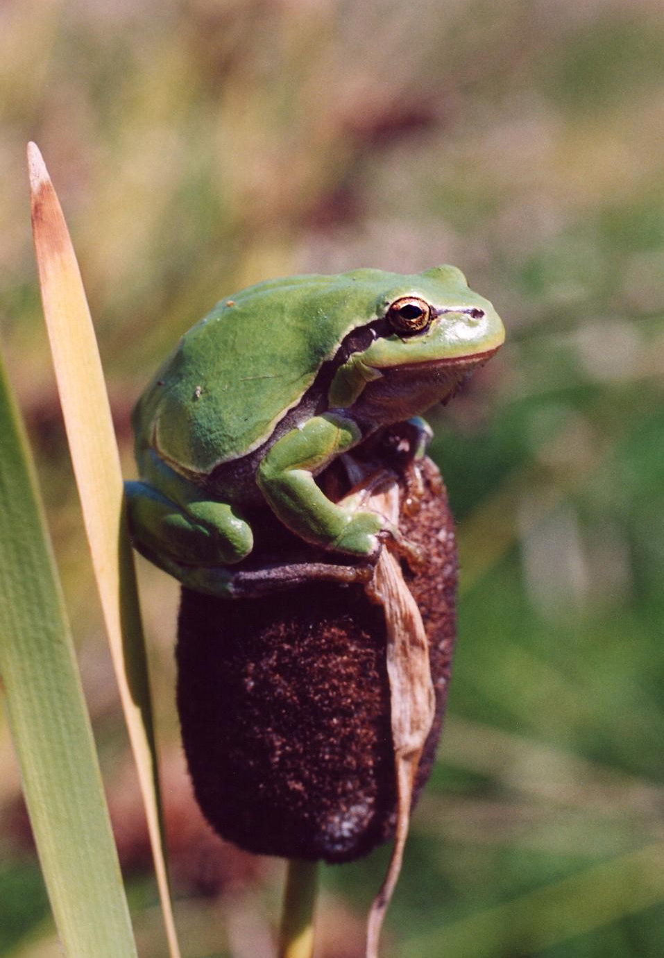 A European Tree Frog (Hyla arborea), sitting on an inflorescence of Typha latifolia.